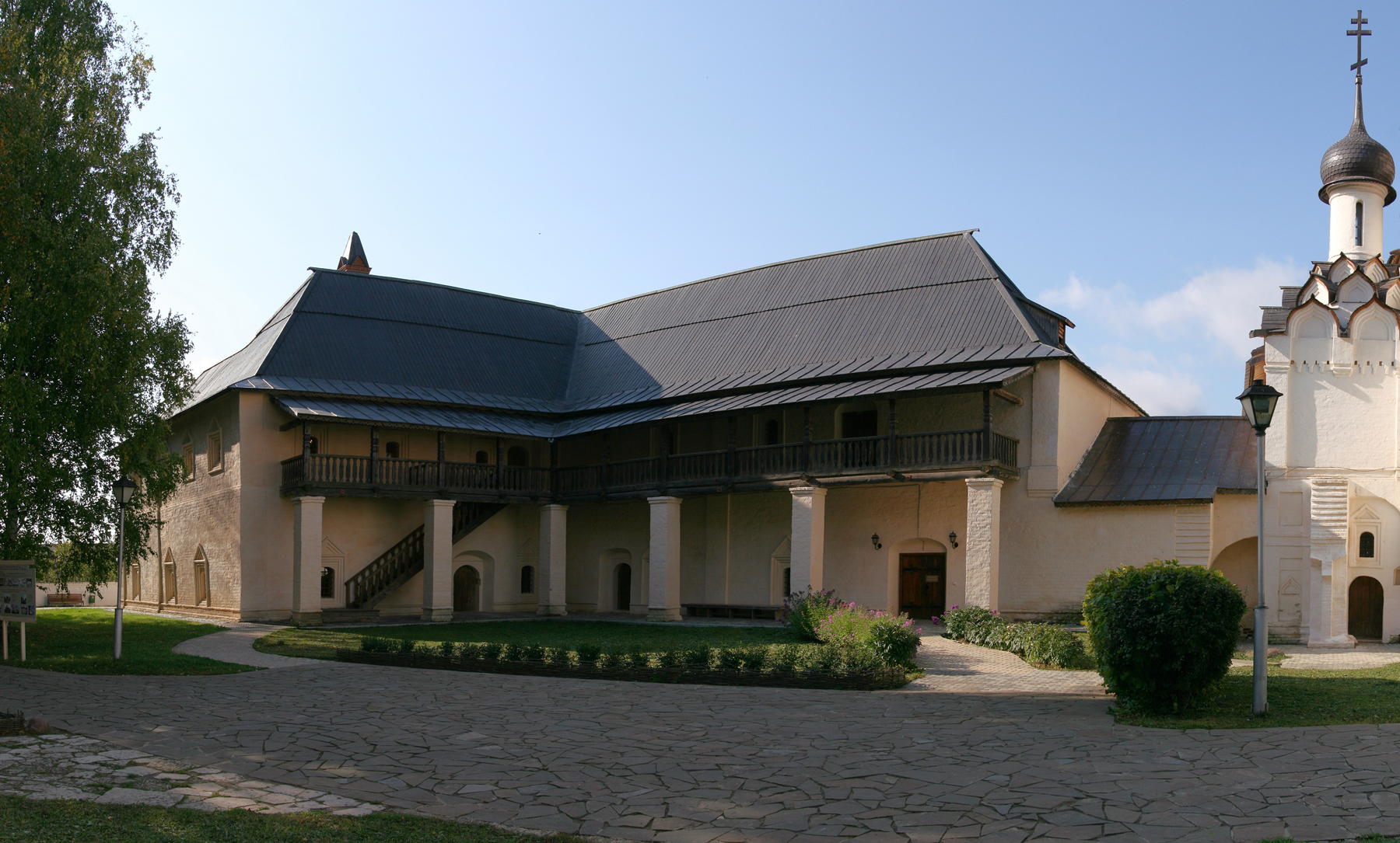 Archimandrite House of Spaso-Yevfimiev Monastery, 1628-1660